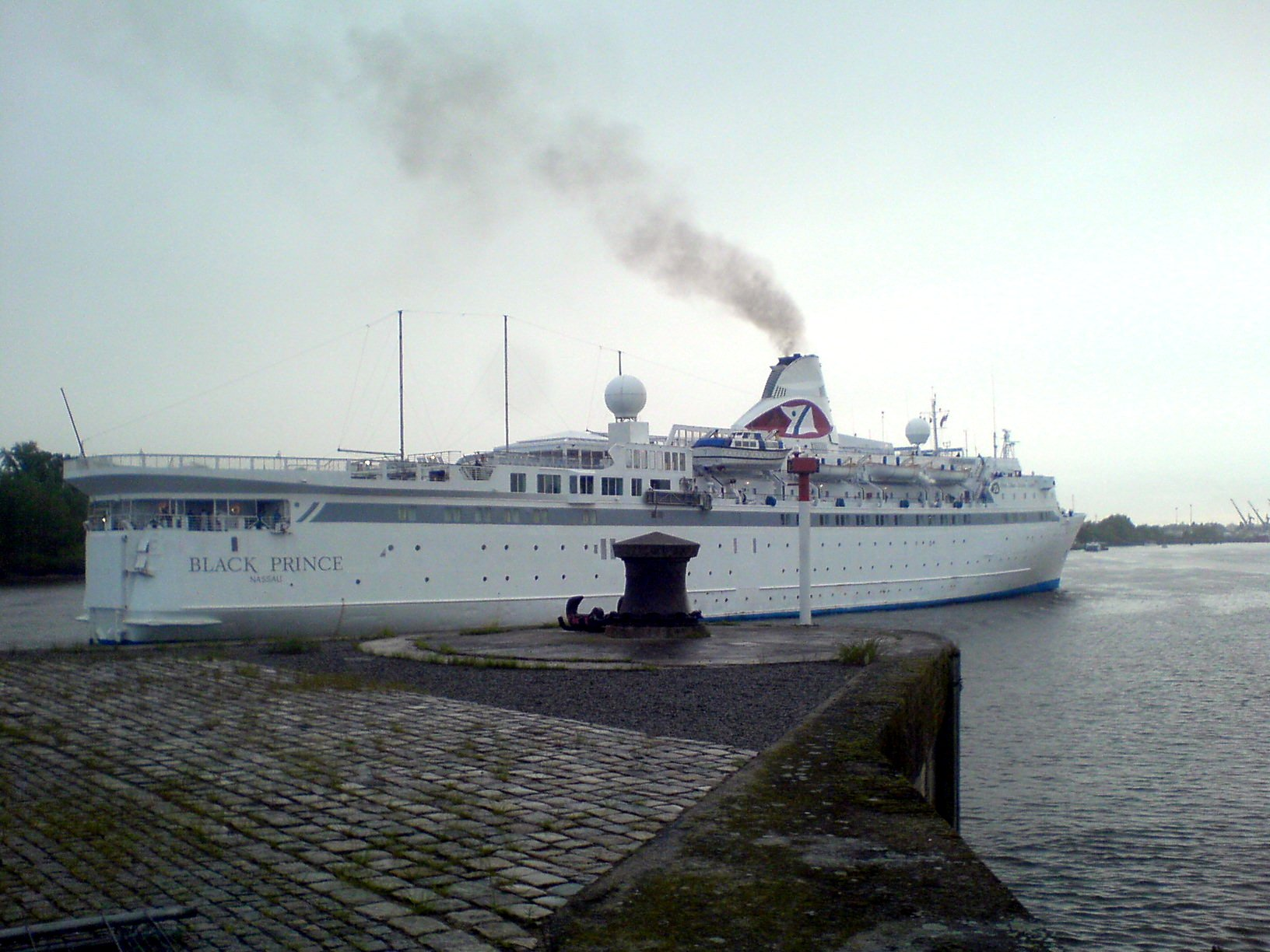 Call in Nantes of cruise ship Black Prince